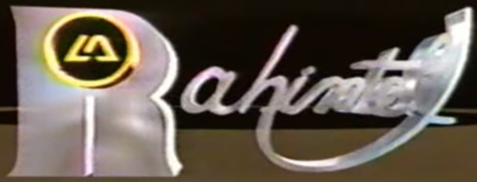 Logo of the now-defunct commercial television channel Rahintel, used in the 1990s